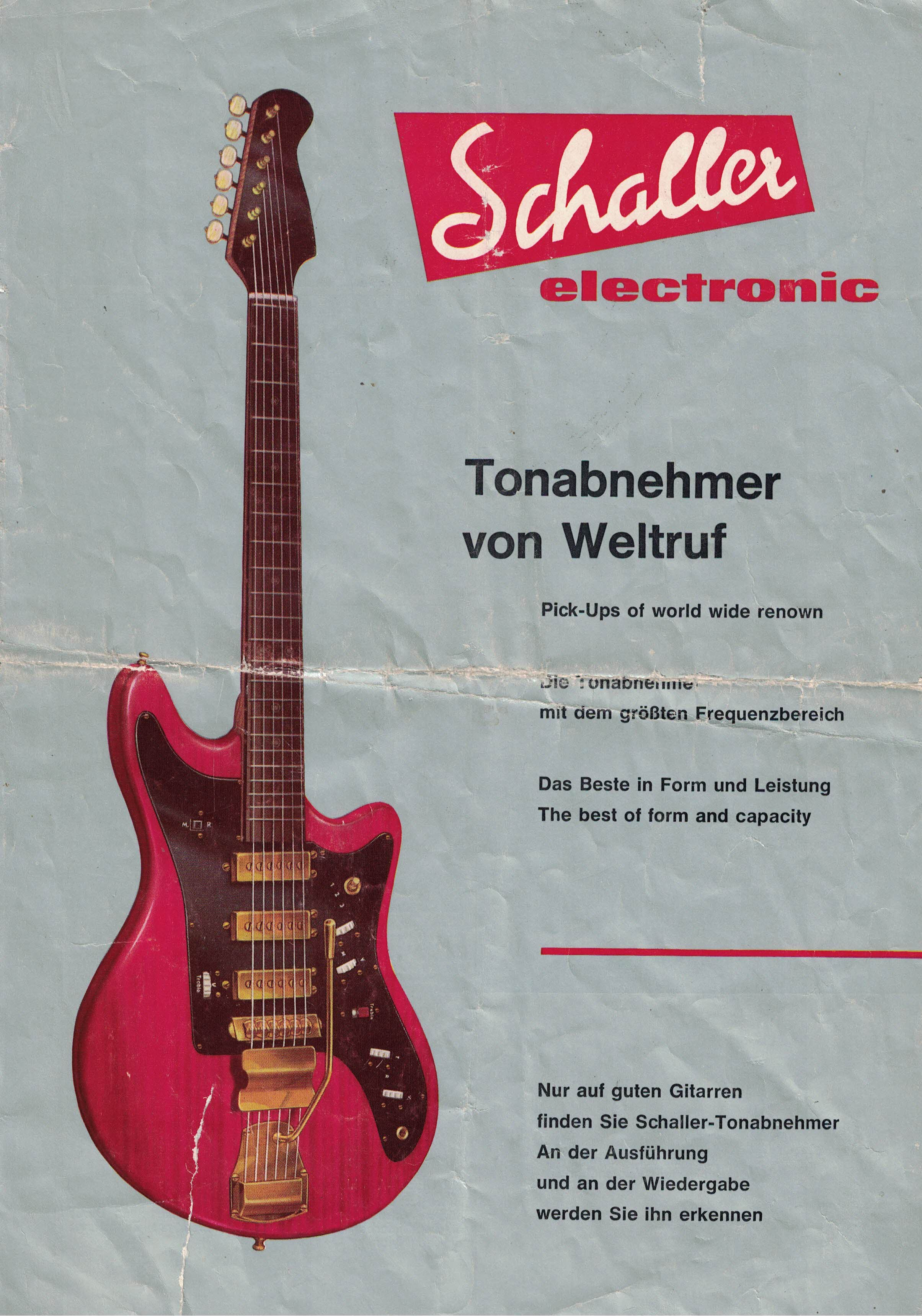 First Schaller electronic advertisement for professional guitar pick-ups.